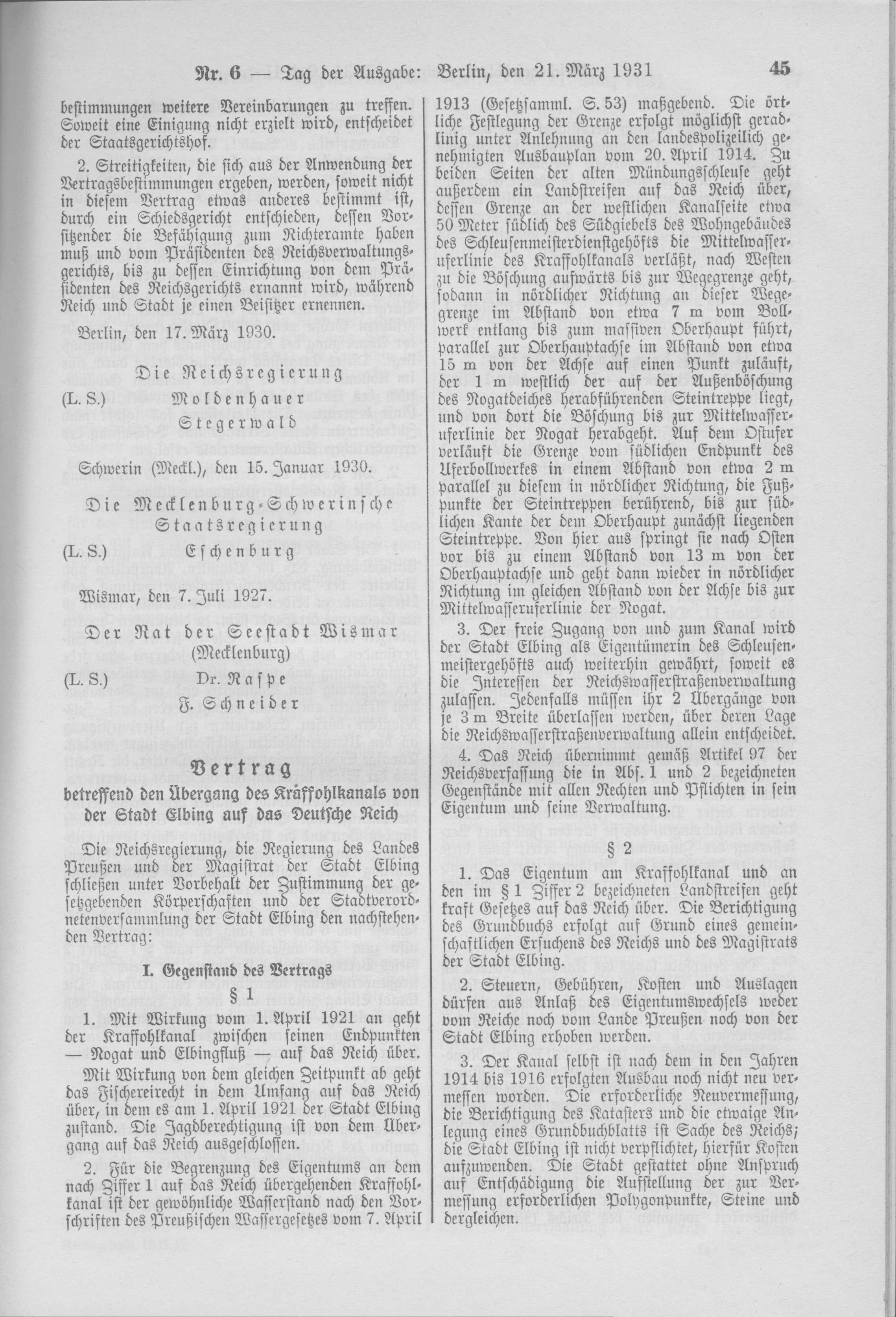 Scan from the Imperial Law Gazette of Germany, 1931, part 2